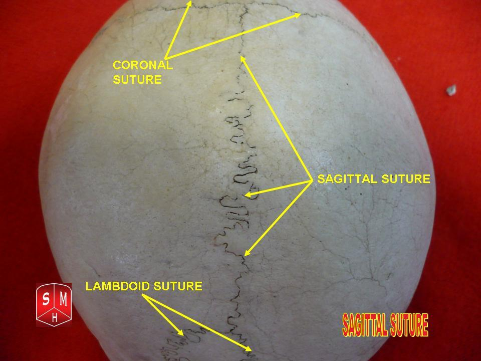 Anatomical piece